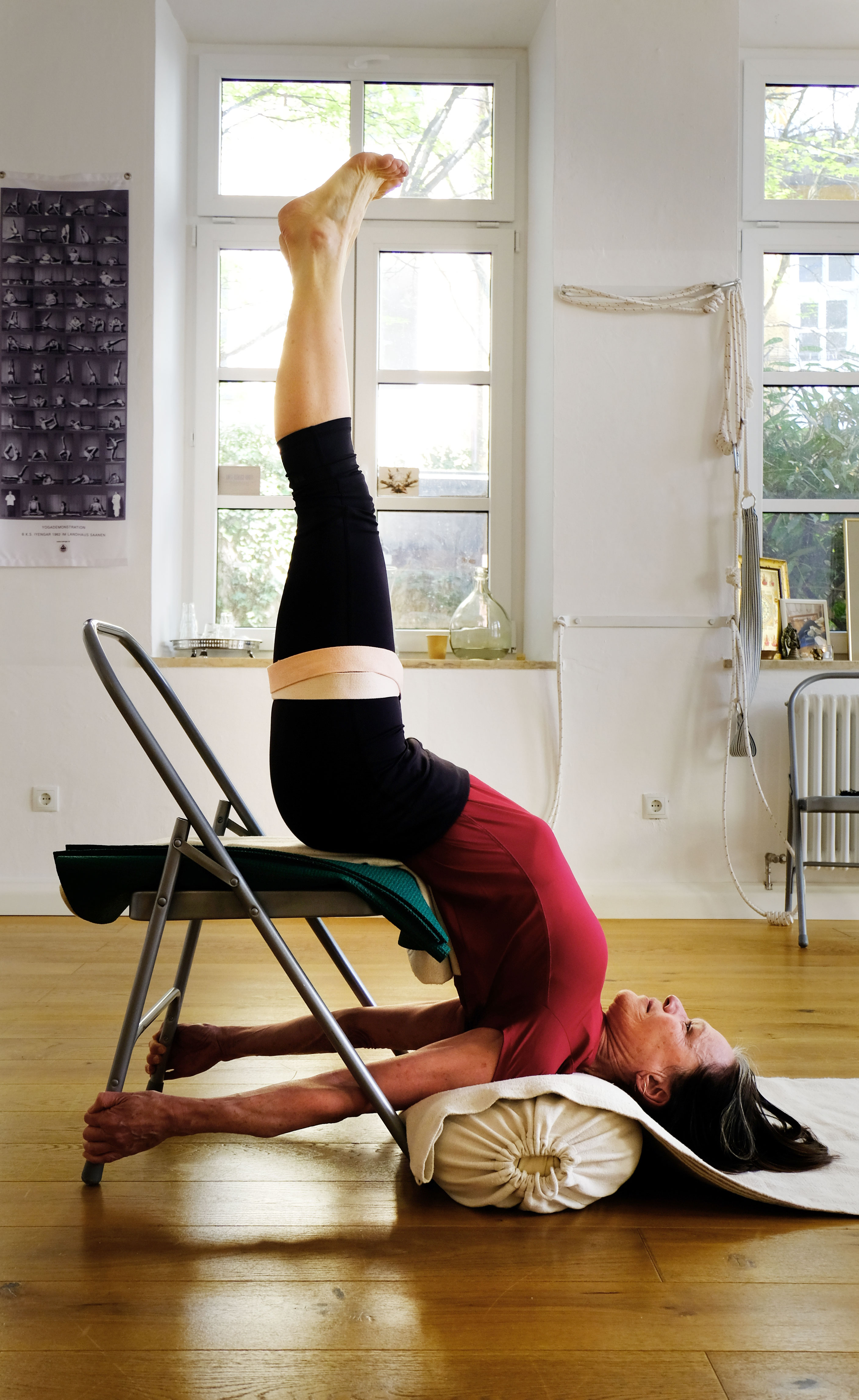 Iyengar teacher Petra Kirchmann practicing sarvangasana with props. Munich, 2020